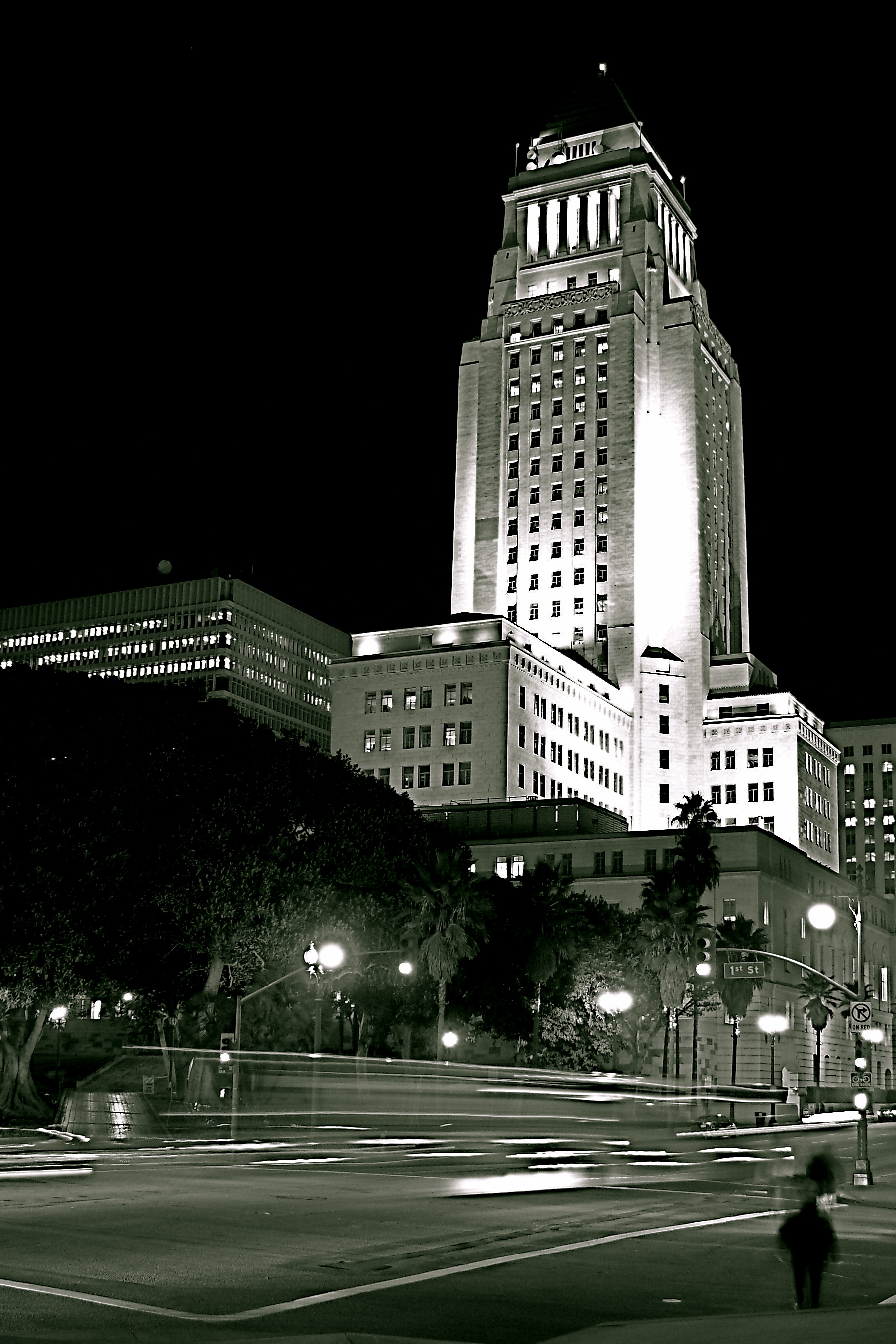 Los Angeles City Hall